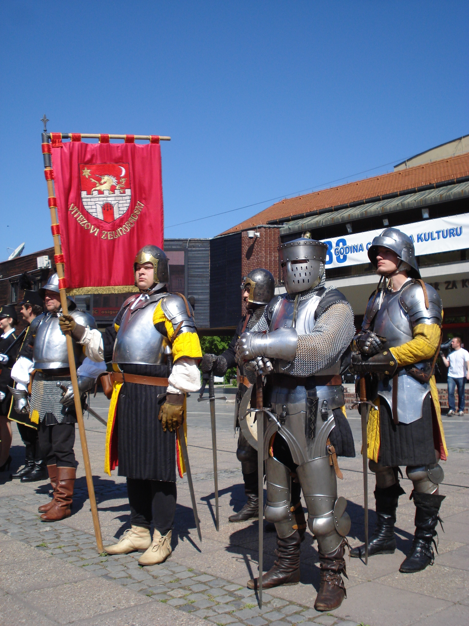 "Knights of Zelingrad Castle", a historical military unit from the Town of Sveti Ivan Zelina near Zagreb, Croatia, during The Medjimurje County Day celebration (30th April 2011) in ČakovecHrvatski: "Vitezovi zelingradski", povijesna vojna postrojba iz Grada Sveti Ivan Zelina, Hrvatska, na proslavi Dana Međimurske županije (30. travnja 2012.) u Čakovcu